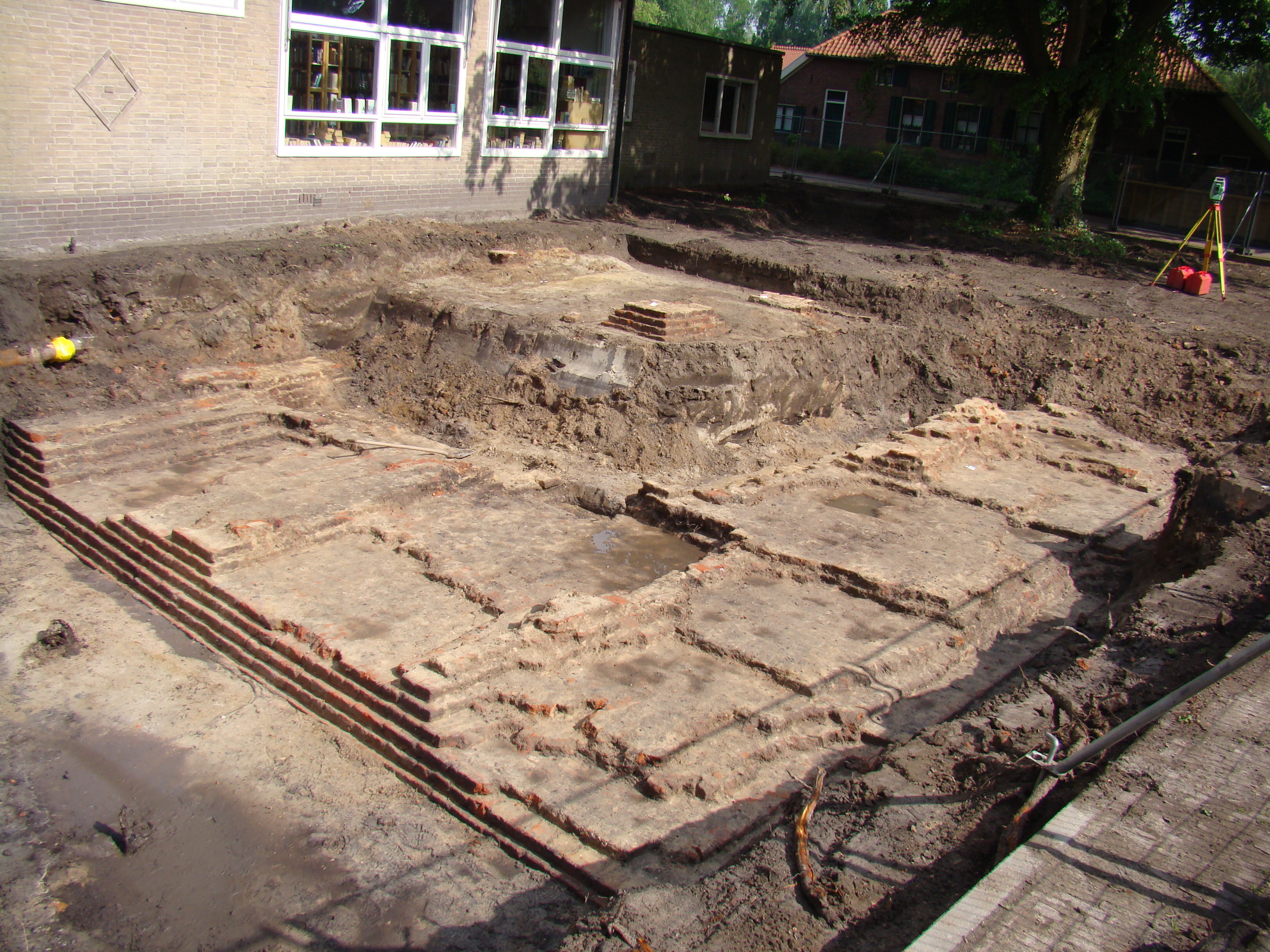 archaeological excavation at Bredevoort, scrap foundations of former castle Bredevoort.